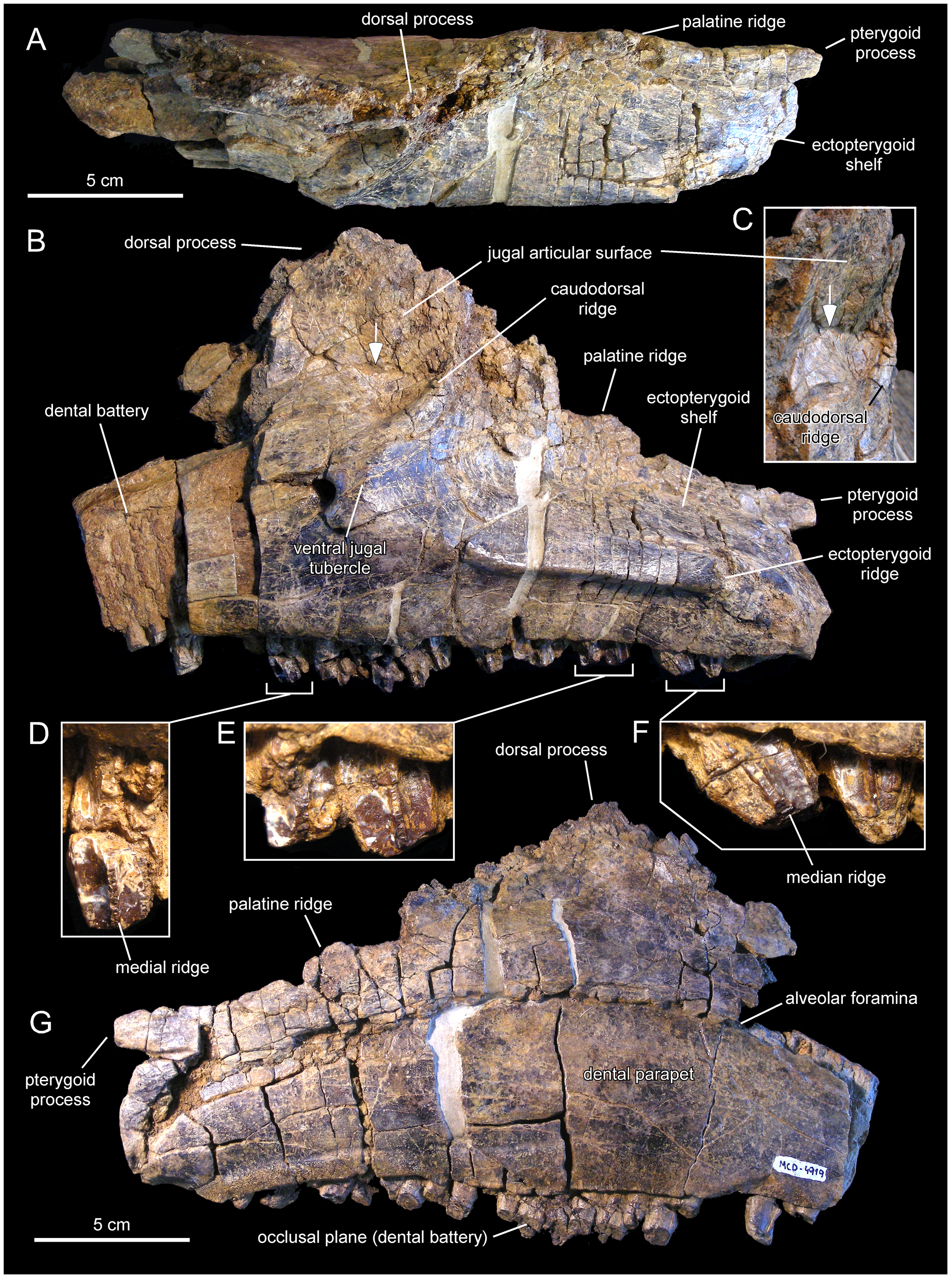 Maxilla in dorsal (A), lateral (B), and medial (G) views. A rostrolateral view of the lateral surface of the dorsal maxillary process, displaying breakage line and medial distortion (white arrow, also in A), is shown in C. Details of the lingual side of tooth crowns are presented in D–F.